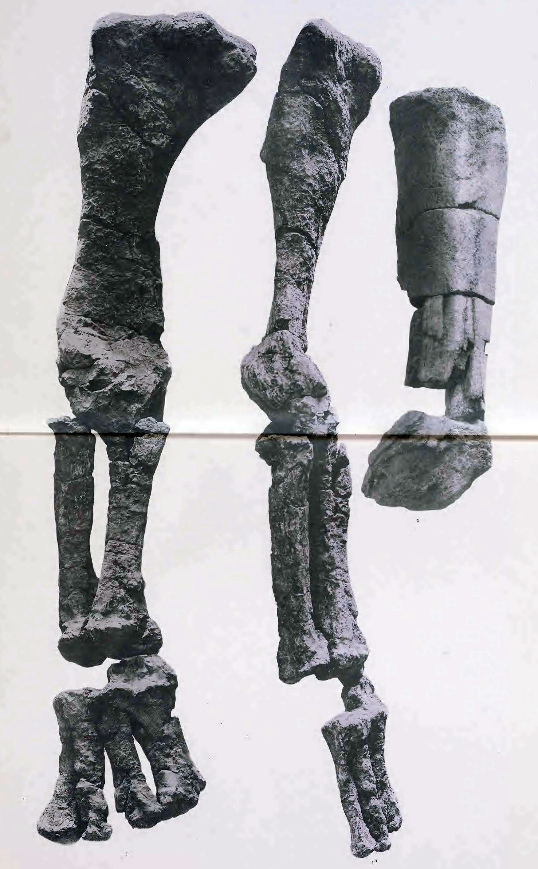 Forelimb and assigned femur of Argyrosaurus superbus.